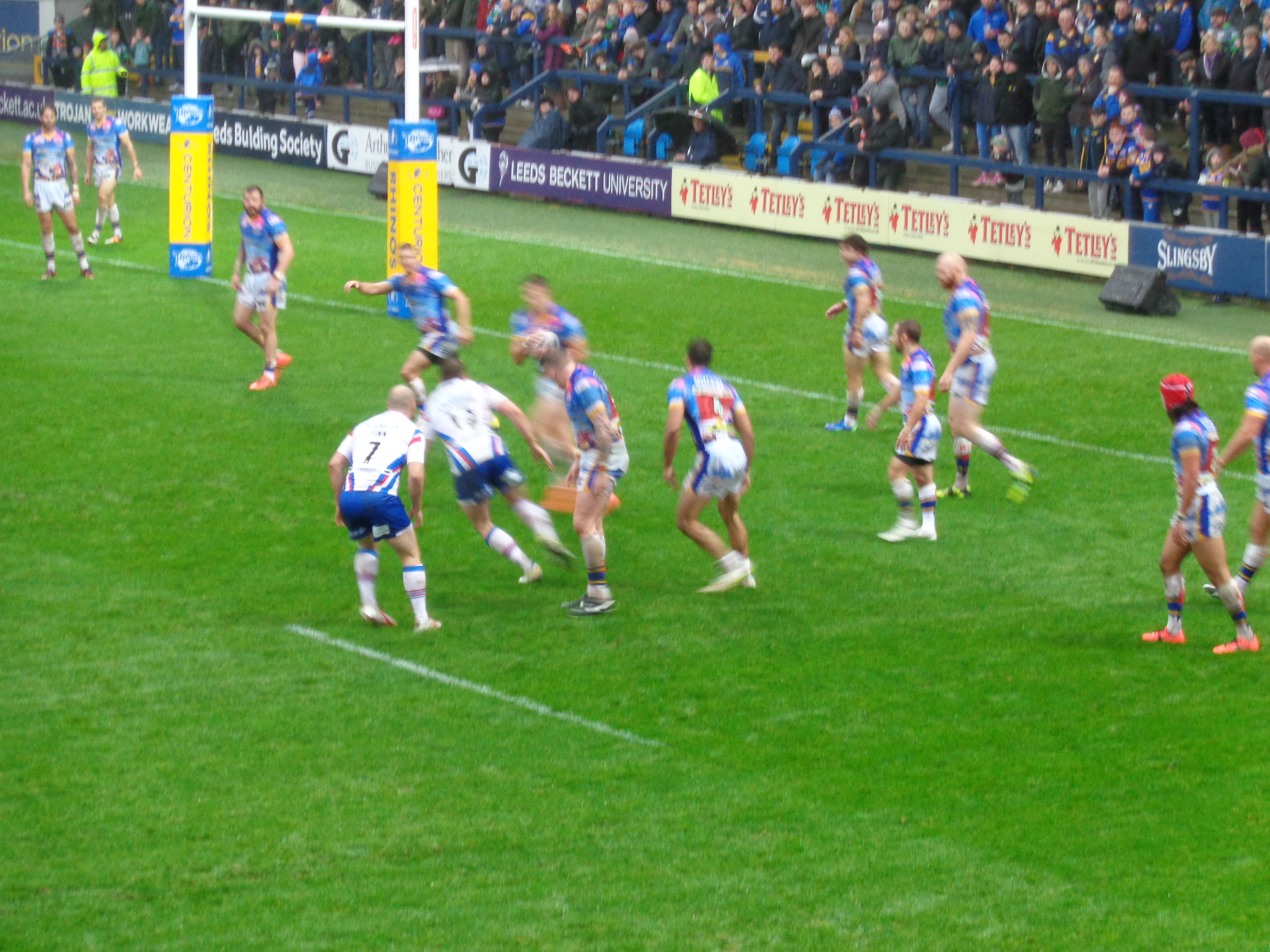 Leeds defending their line in the first half of the 2015 Festive Challenge; an annual friendly played between Leeds Rhinos and Wakefield Trinity Wildcats every boxing day at Headingley Stadium. This years sponsors are the Wetherby Whaler who have three branches in the Leeds area and one in Wetherby. This years fixture saw current champions and 'treble holders' Leeds lose at home to Wakefield (final score Leeds 6-14 Wakefield). Taken around midday on Saturday the 26th of December 2015.